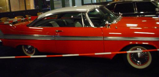 Self made picture